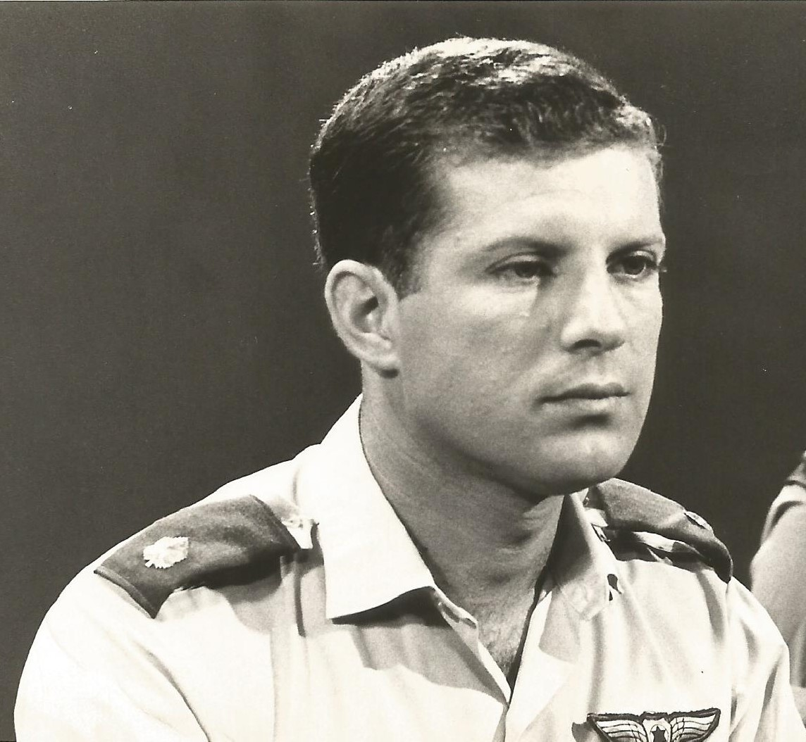 Israeli pilot Oded Marom